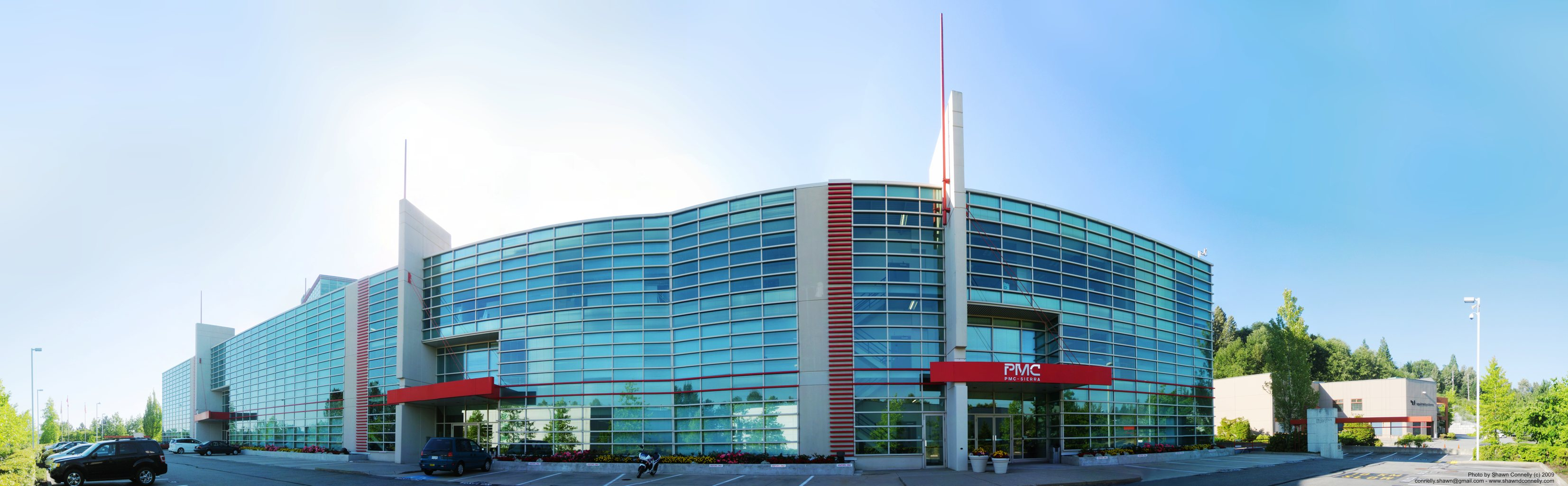 PMC-Sierra, Burnaby, Canada office.